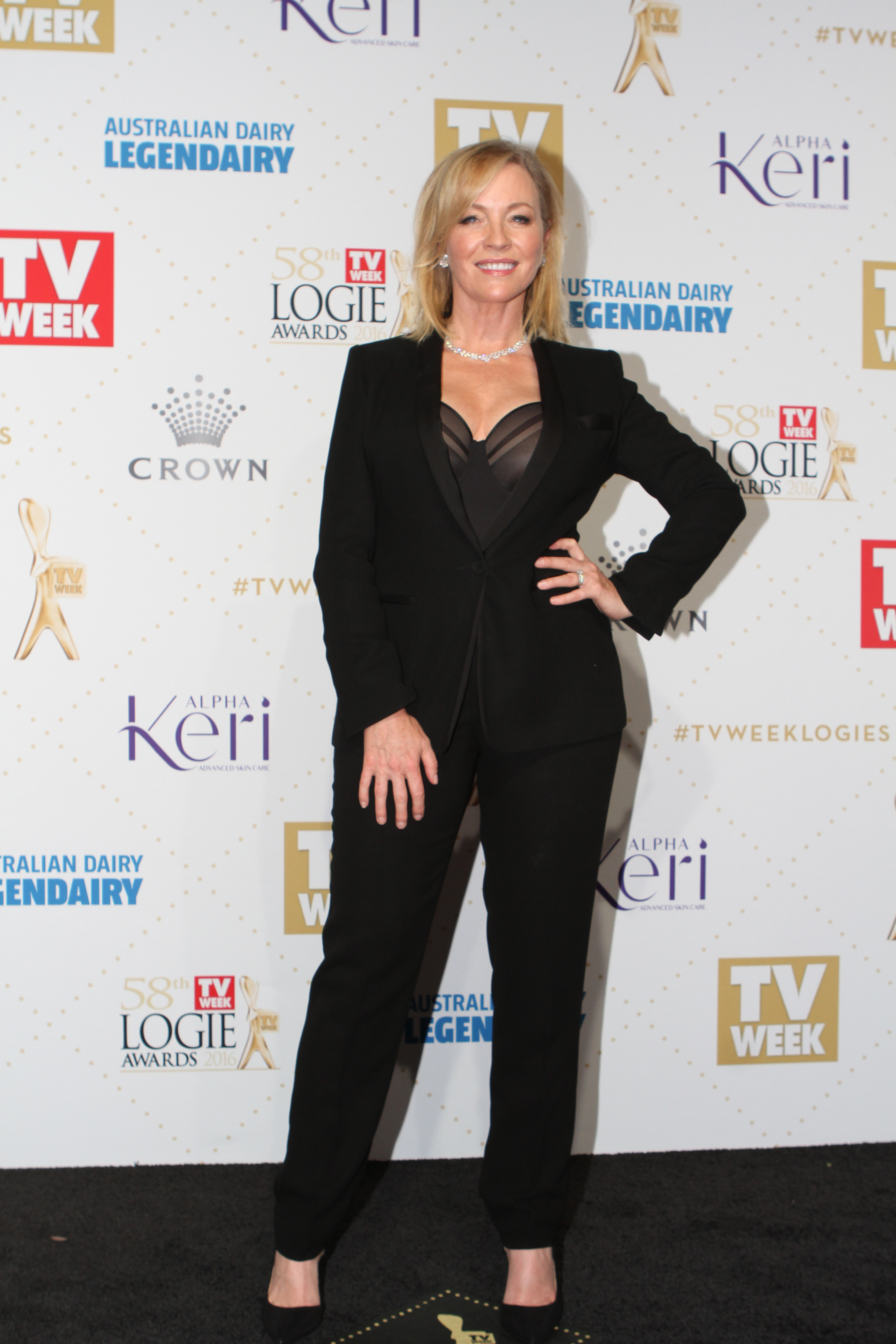 Rebecca Gibney arrives at the 58th Annual Logie Awards at Crown Palladium